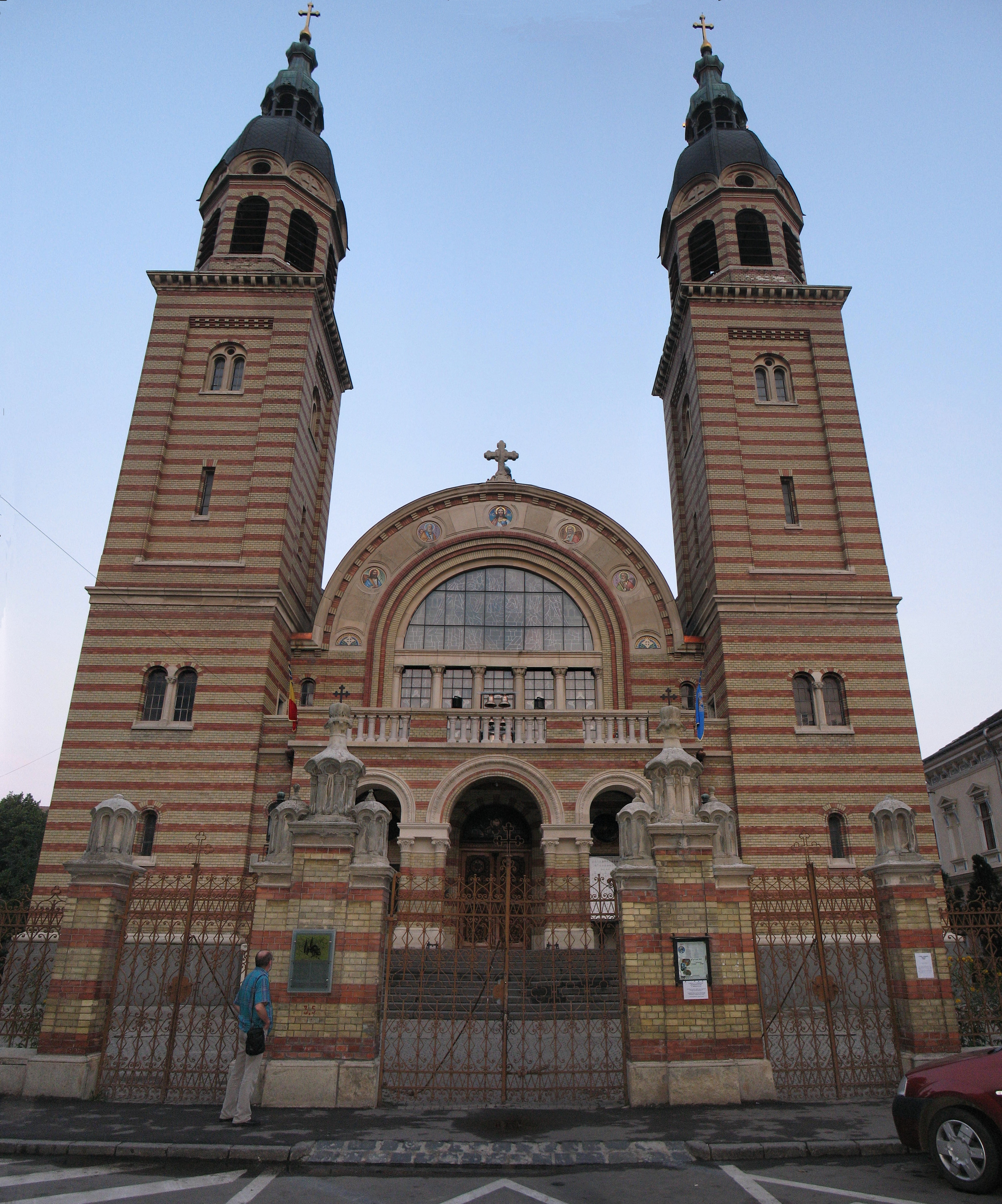 The Orthodox Cathedral of Sibiu, Romania